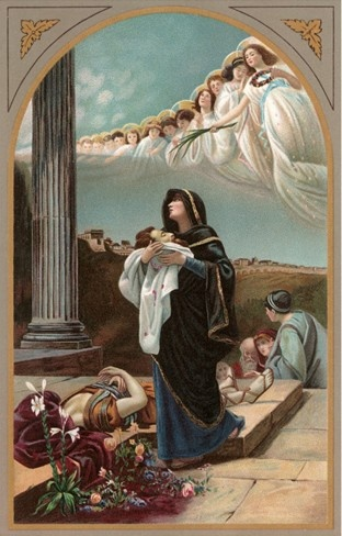 The Martyrdom of Saint Alexander